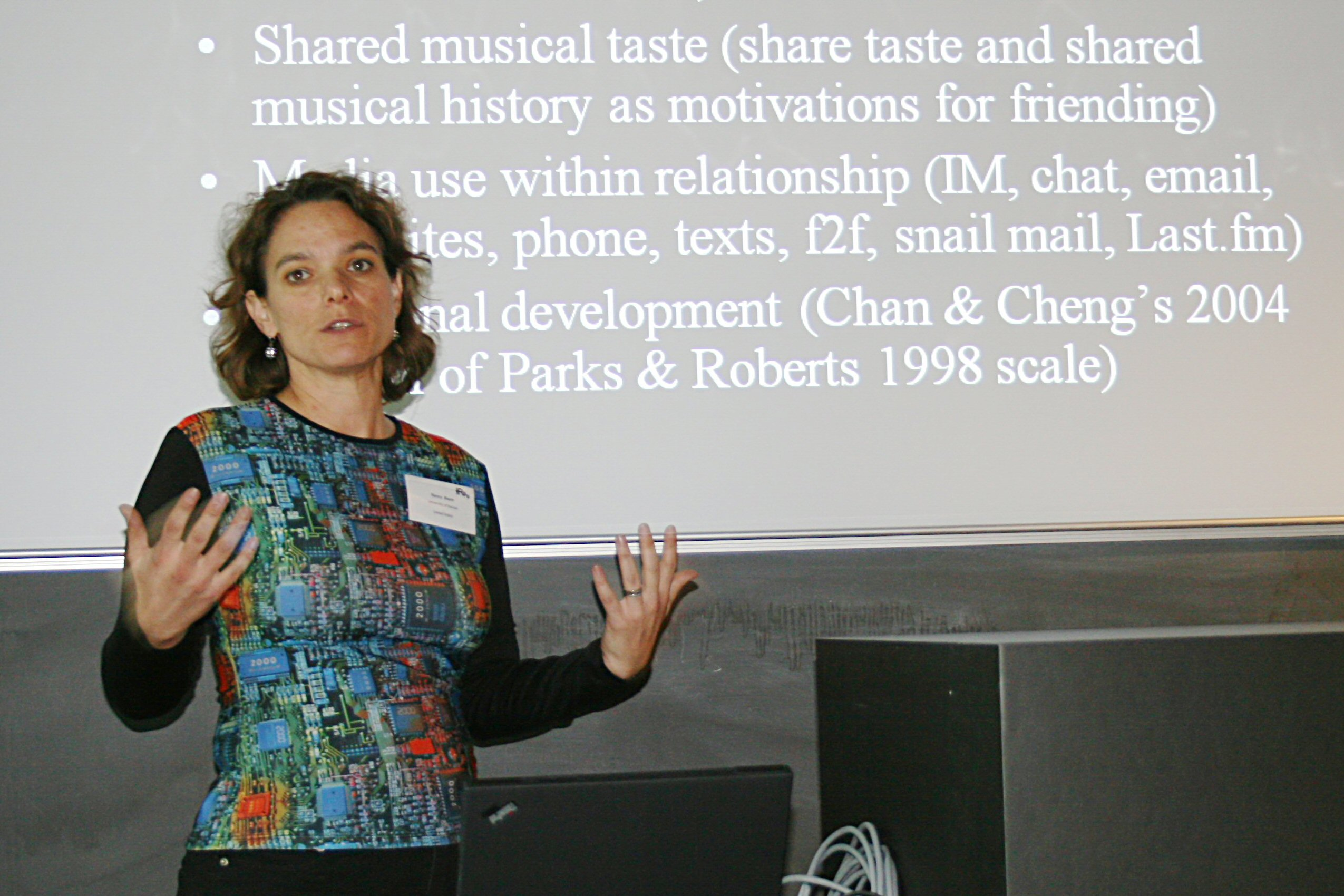 Nancy Baym presenting a paper at the AoIR Conference in Copenhagen